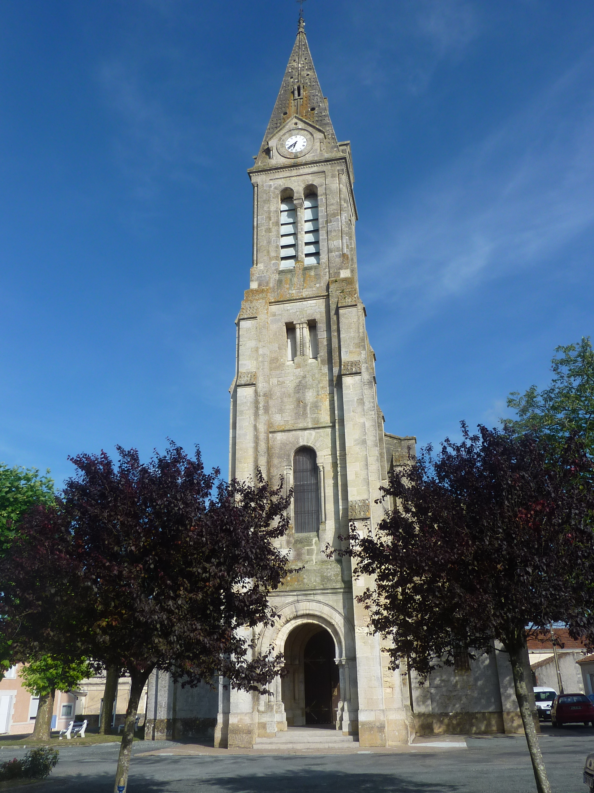 Church of Valeyrac, Gironde, France